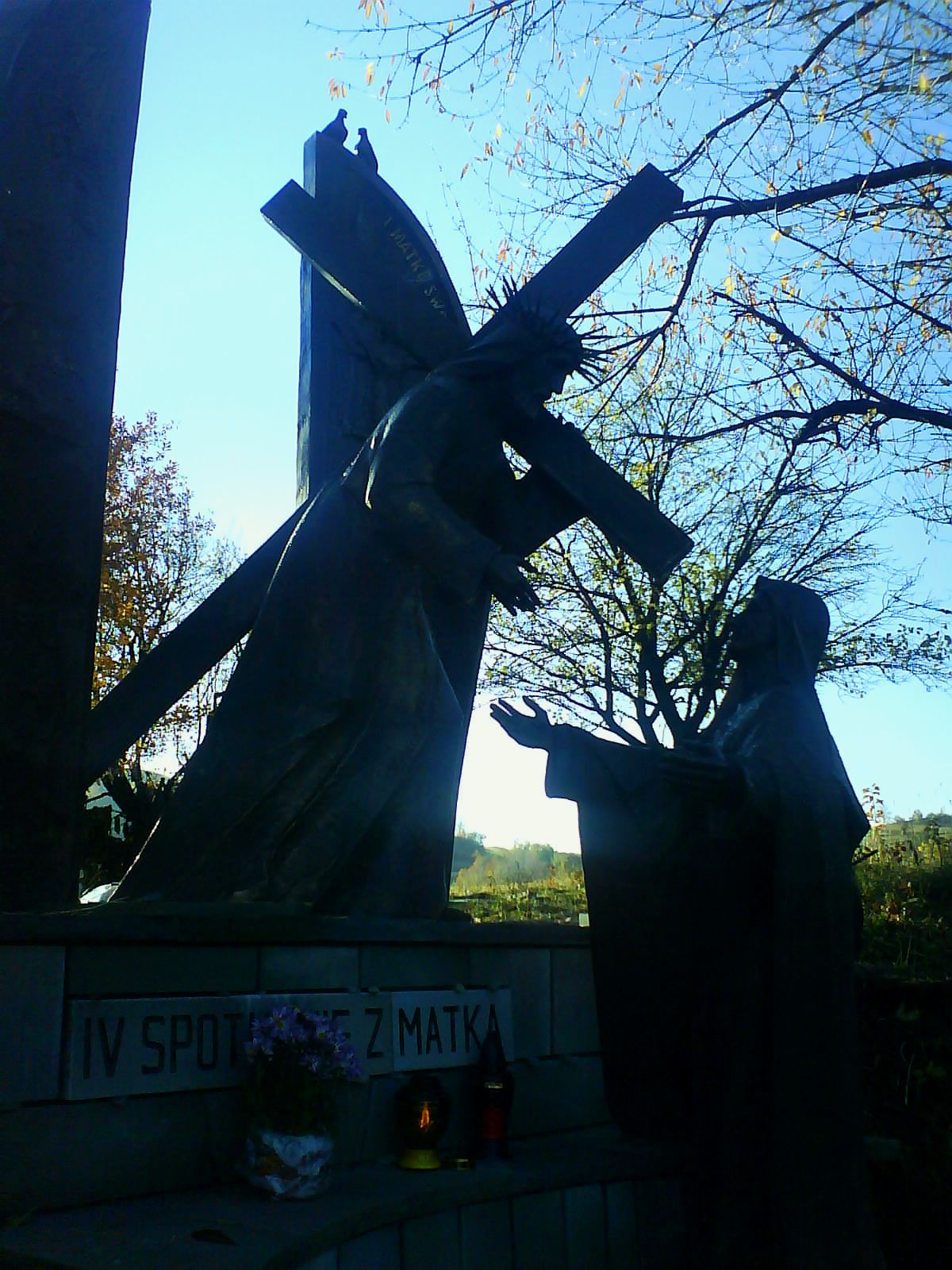 The 4th station of the way of the cross on the Matyska in Radziechowy/Żywiec/Poland